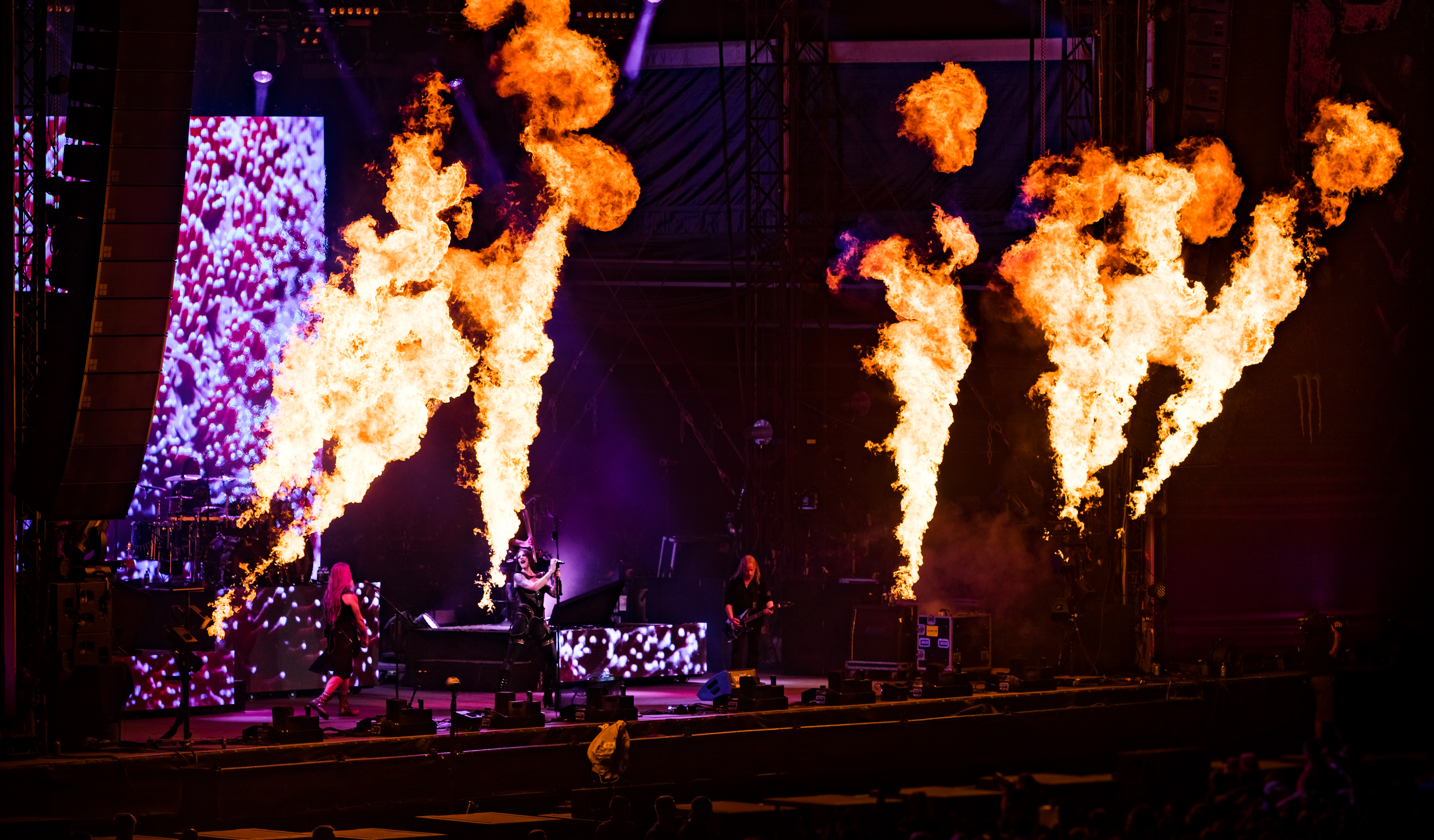 Nightwish - Wacken Open Air 2018